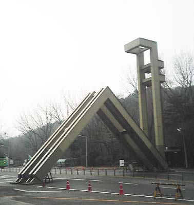 Gate of Seoul National University